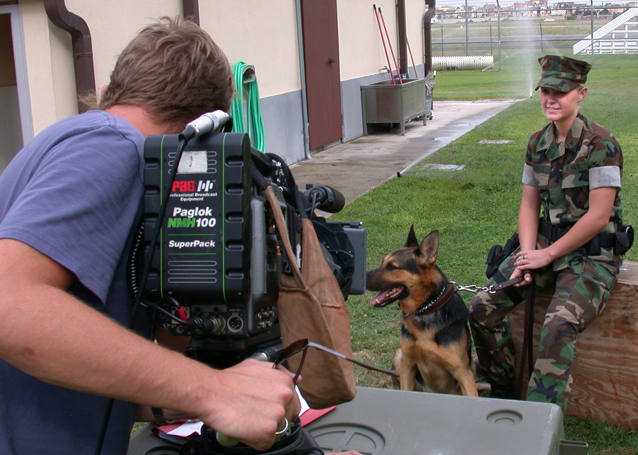 Naples, Italy (Aug. 26, 2003) -- Master-at-Arms 2nd Class Ashleigh Pankratz and her partner Nero, are interviewed on videotape for an upcoming episode of Animal Planet on the Discovery Channel cable network. The eight-part series, called K-9 Bootcamp, begins airing Oct. 6, 2003. U.S. Navy photo by Journalist 2nd Class Eric Brown. (RELEASED)